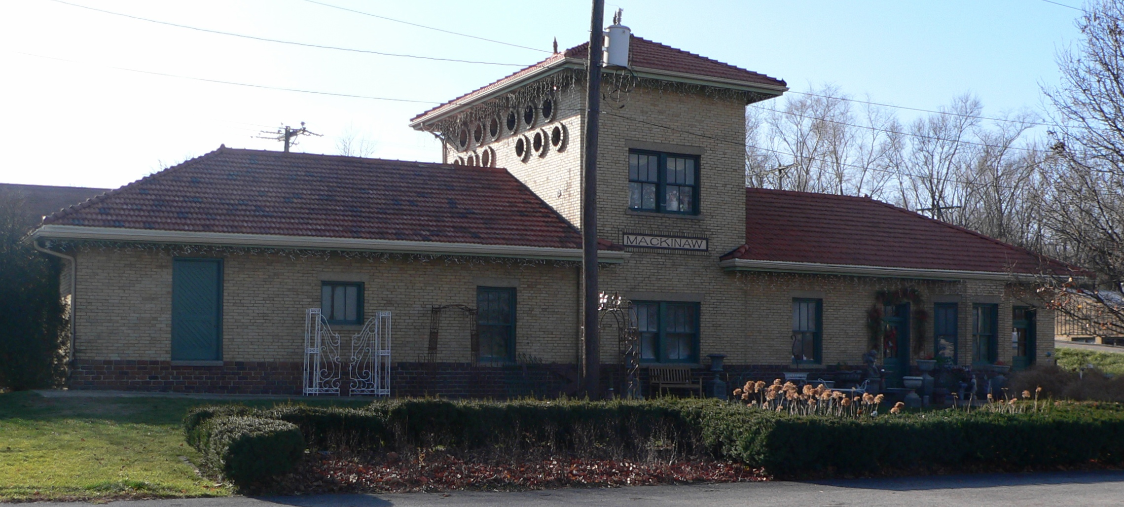 Railroad depot, located 301 N. Main Street in Mackinaw, Illinois; seen from the north.